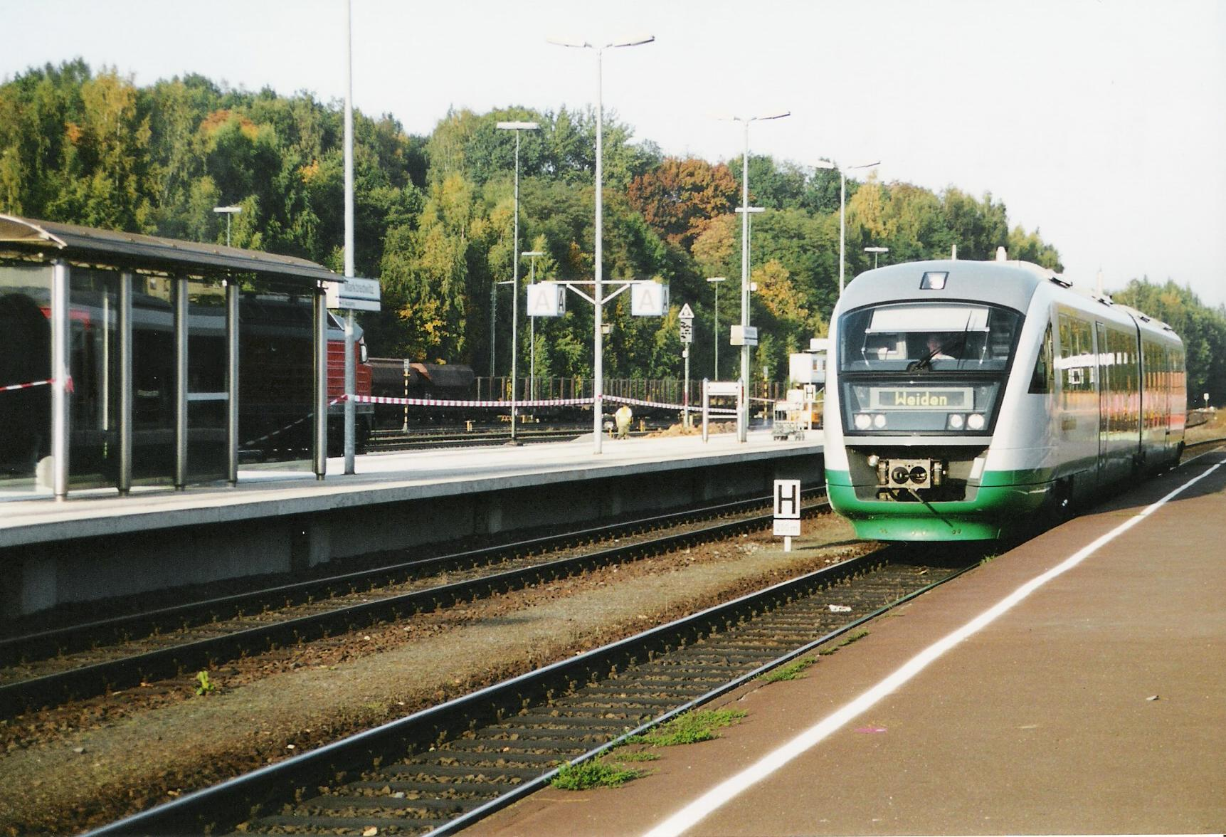 DMU of the Vogtlandbahn arriving in Marktredwitz, Germany.